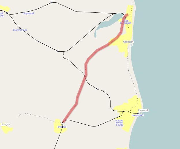 Map showing route of the Yarmouth-Beccles_Line railway line